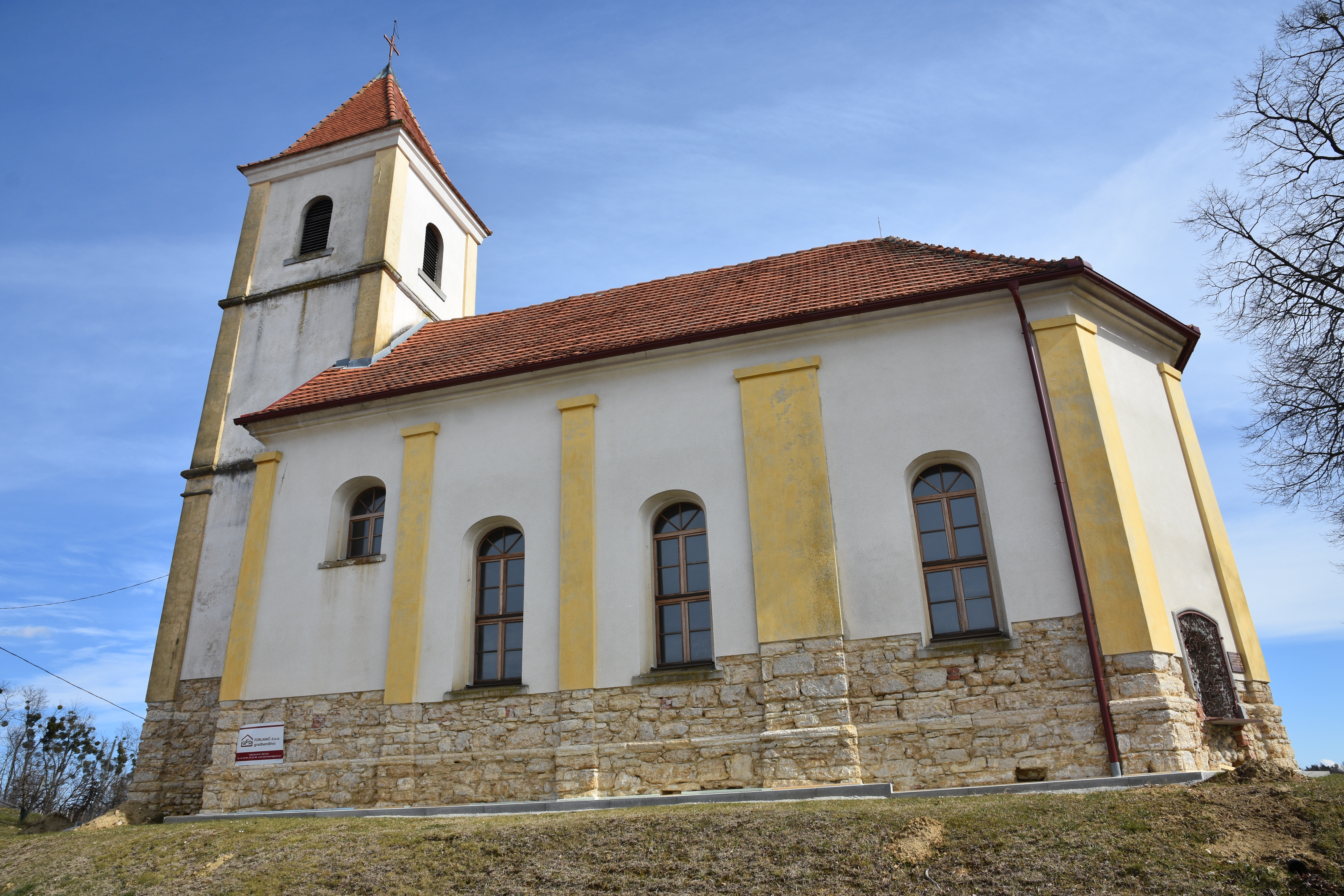 Our Lady of the Snow Church Fikšinci